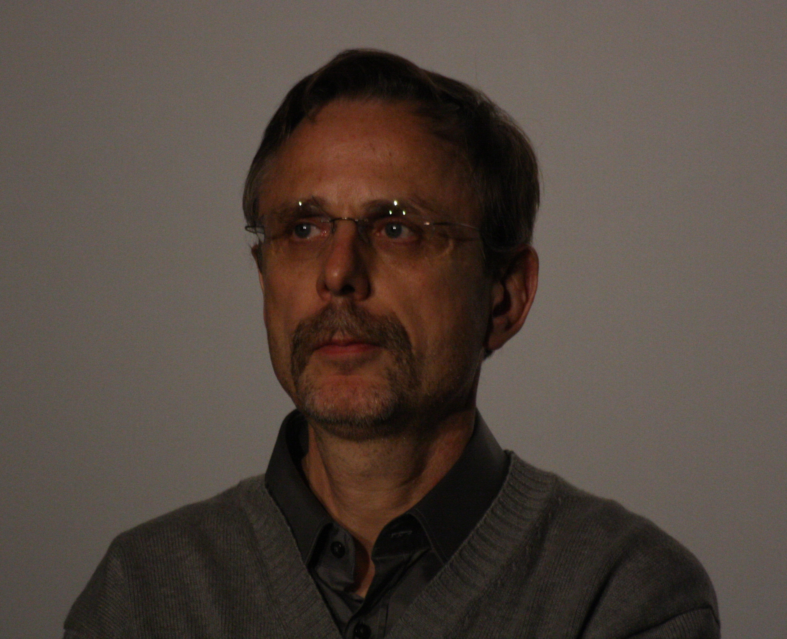 Christophe Rossignon, french actor and producer, during the preview of the movie L'Ordre et la Morale directed by Mathieu Kassovitz at the movie theater UGC Cité Ciné SQY in Saint Quentin en Yvelines, France.